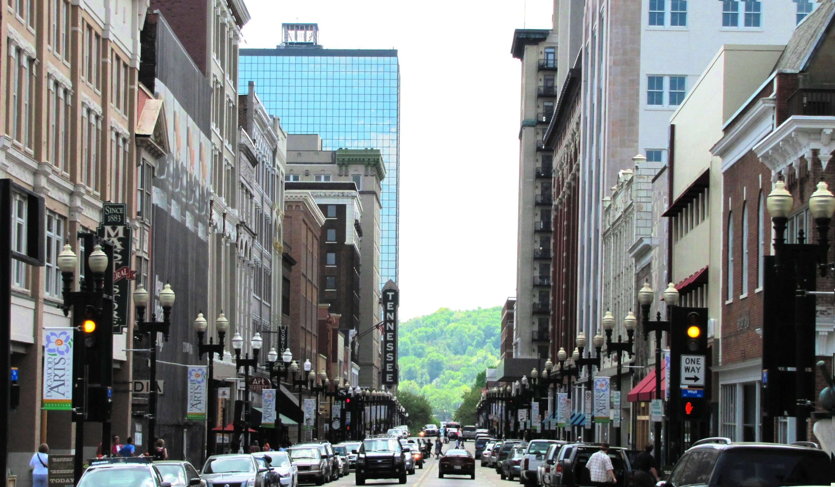 View south along South Gay Street in Knoxville, Tennessee, USA. Several of the buildings pictured are contributing buildings in the NRHP-listed Gay Street Commercial Historic District. The Plaza Tower (First Tennessee Plaza), Knoxville's tallest building, rises in the distance on the left. The intersection of Gay and Wall is on the right.